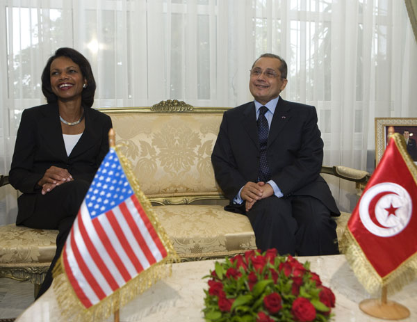 Secretary of State Condoleezza Rice meets with Tunisian Foreign Minister Abdelwahab Abdallah in Tunis, Tunisia.